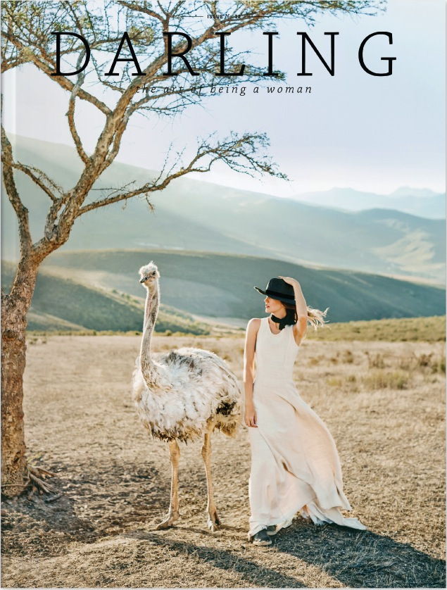 Darling Magazine cover issue 12